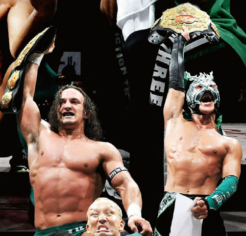 Dragon Kid and PAC with the Open The Twin Gate Championship